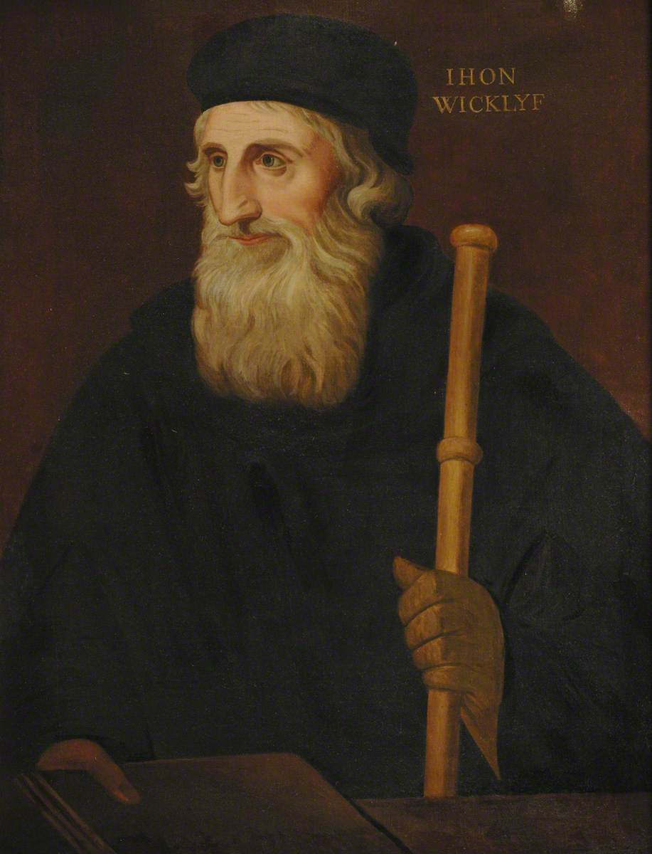 Portrait of John Wycliffe (c.1330–1384)